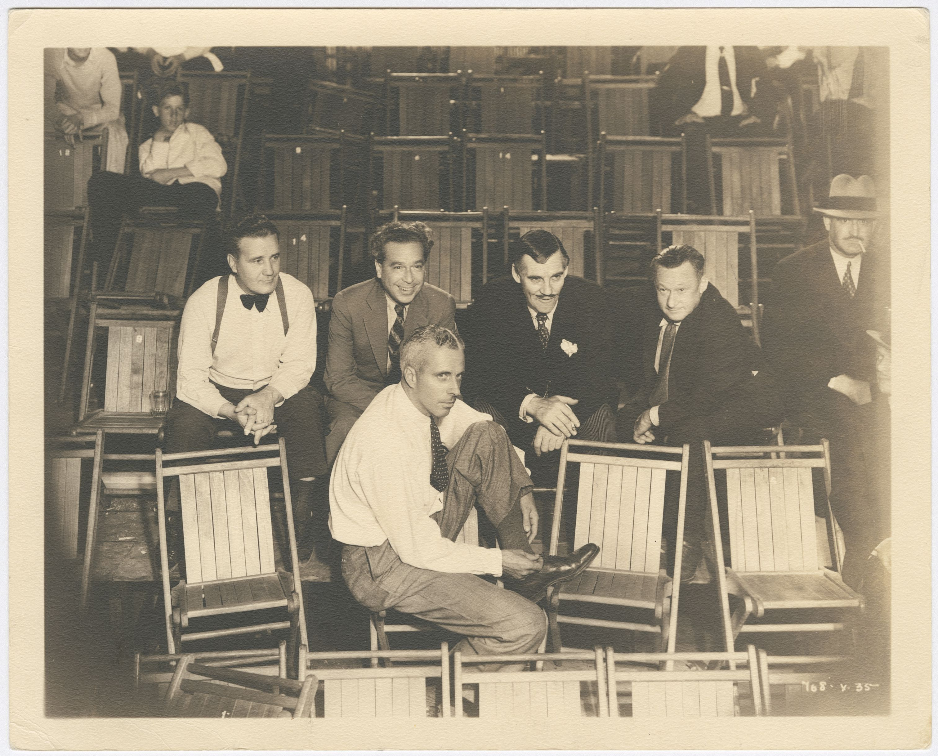 Howard Hawks, front, with other film people. The back of the photo has "Hearts in Exile (1929)" in pencil, but this may not be accurate. It may depict people involved with Scarface, in which case the two leftmost men on the back row could be W.R. Burnett and Richard Rosson